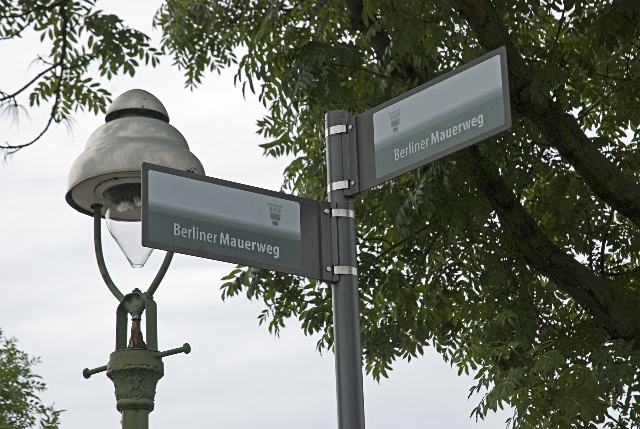 Sign post of the Berliner Mauerweg, a cycle track and hiking trail along the the former Berlin Wall